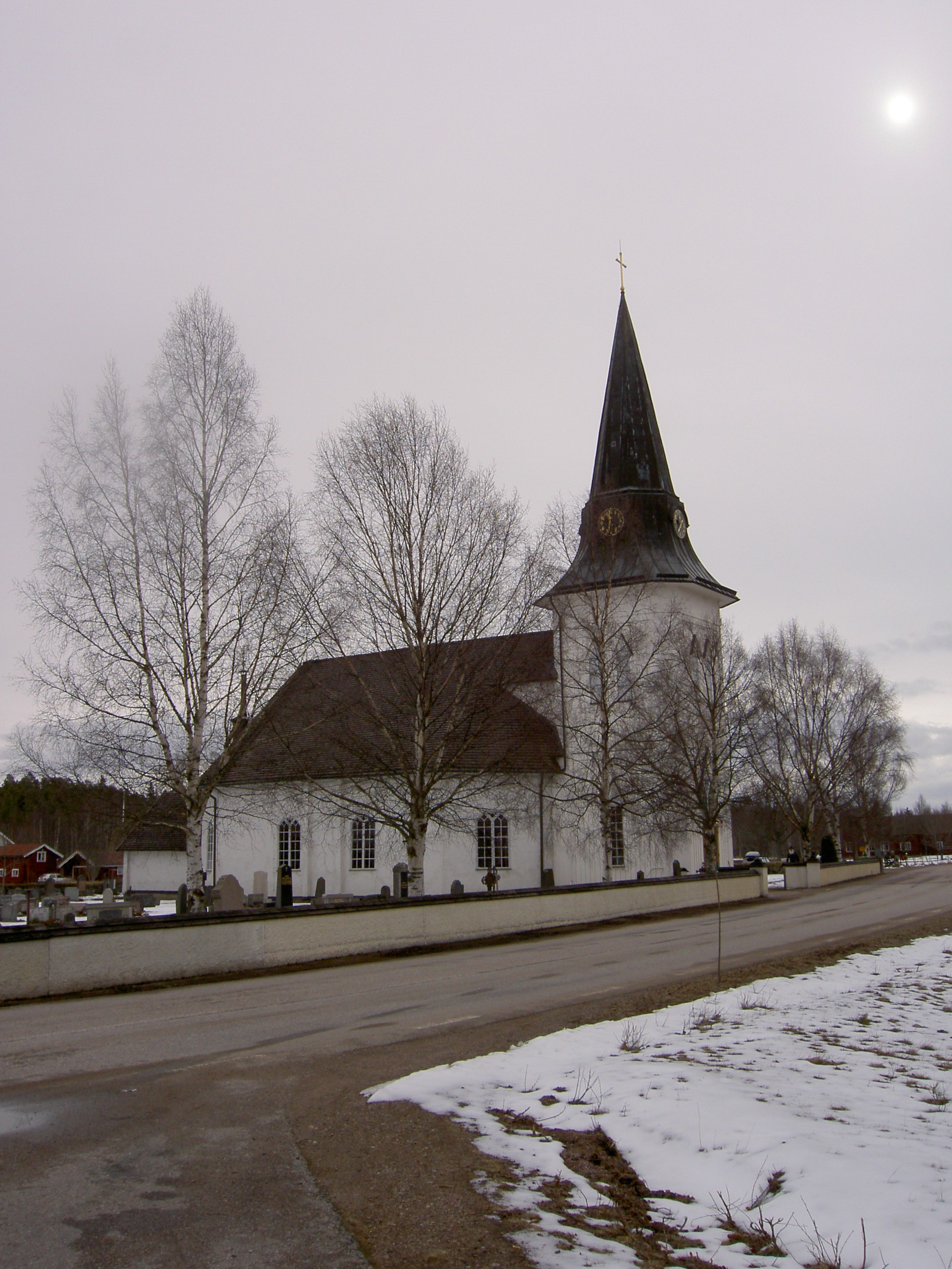 Äppelbo church, Sweden